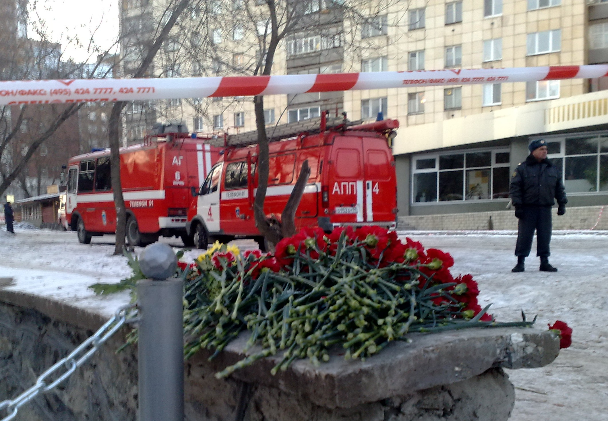 Flowers in front of the club "Lame Horse" (Perm)